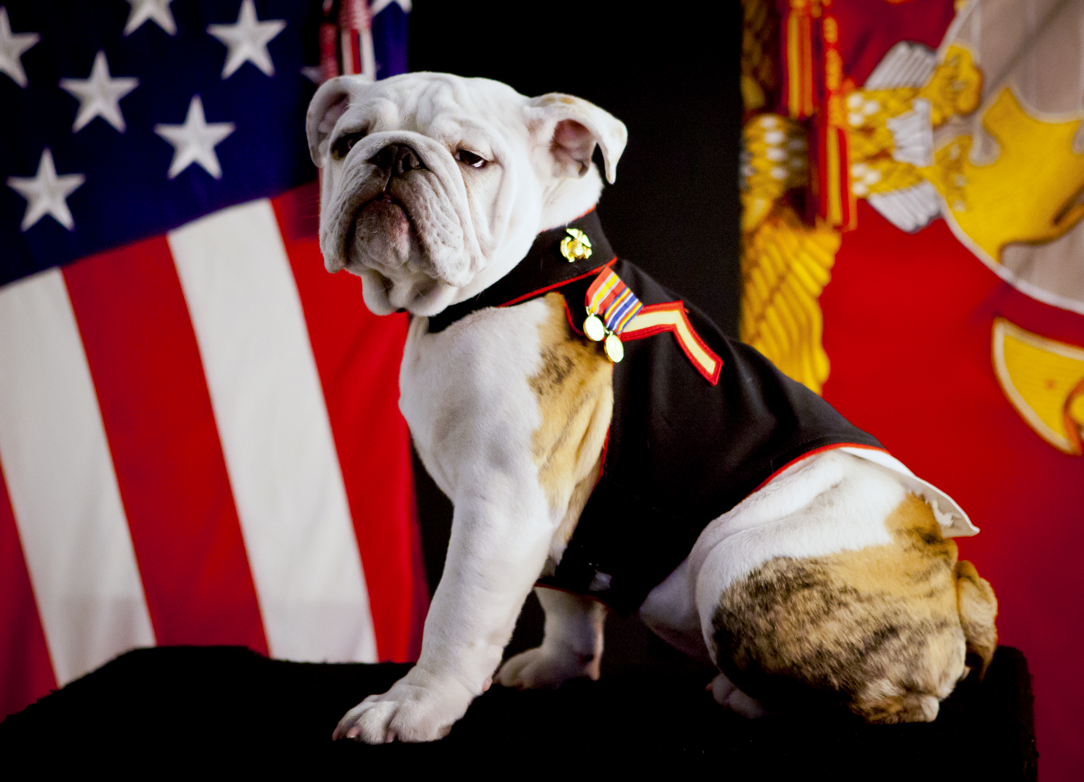 The official mascot of the Marine Corps, English bulldog Pfc. Chesty the XIV, poses for his official photo at Headquarters Marine Corps Combat Camera in the Pentagon, Arlington, Va, May 15, 2013. Chesty the XIV will officially take over as the mascot when his predecessor, Sgt. Chesty the XIII, retires in the fall of 2013.